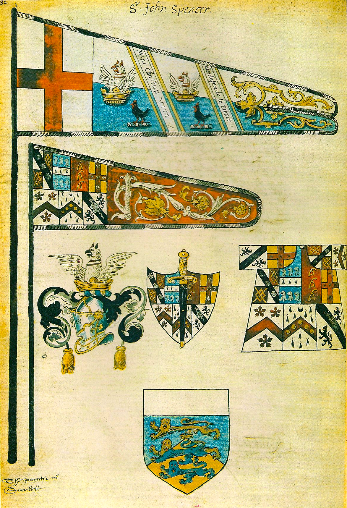 Funeral certificate of Sir John Spencer of Althorp, Northamptonshire, Kent. Died 9 January 1599/1600, showing standard, guidon, helm, mantling and crest, shield, and tabard, painted by Richard Scarlett.